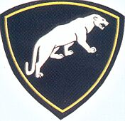 Shoulder patch of Interior Troops of Russia for the Special Rapid Deployment Division.